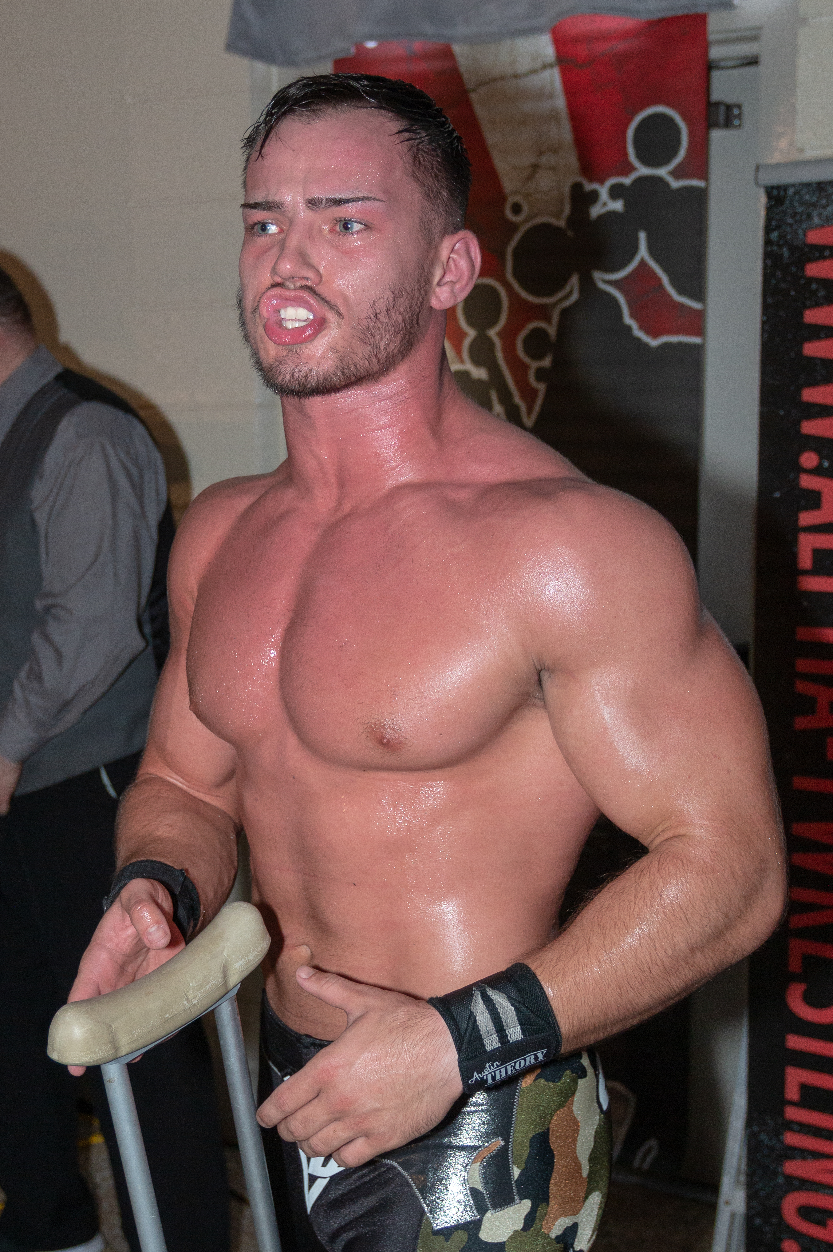 Pro wrestler Austin Theory mid-match at Alpha-1's The Purge 3 show in Hamilton, ON